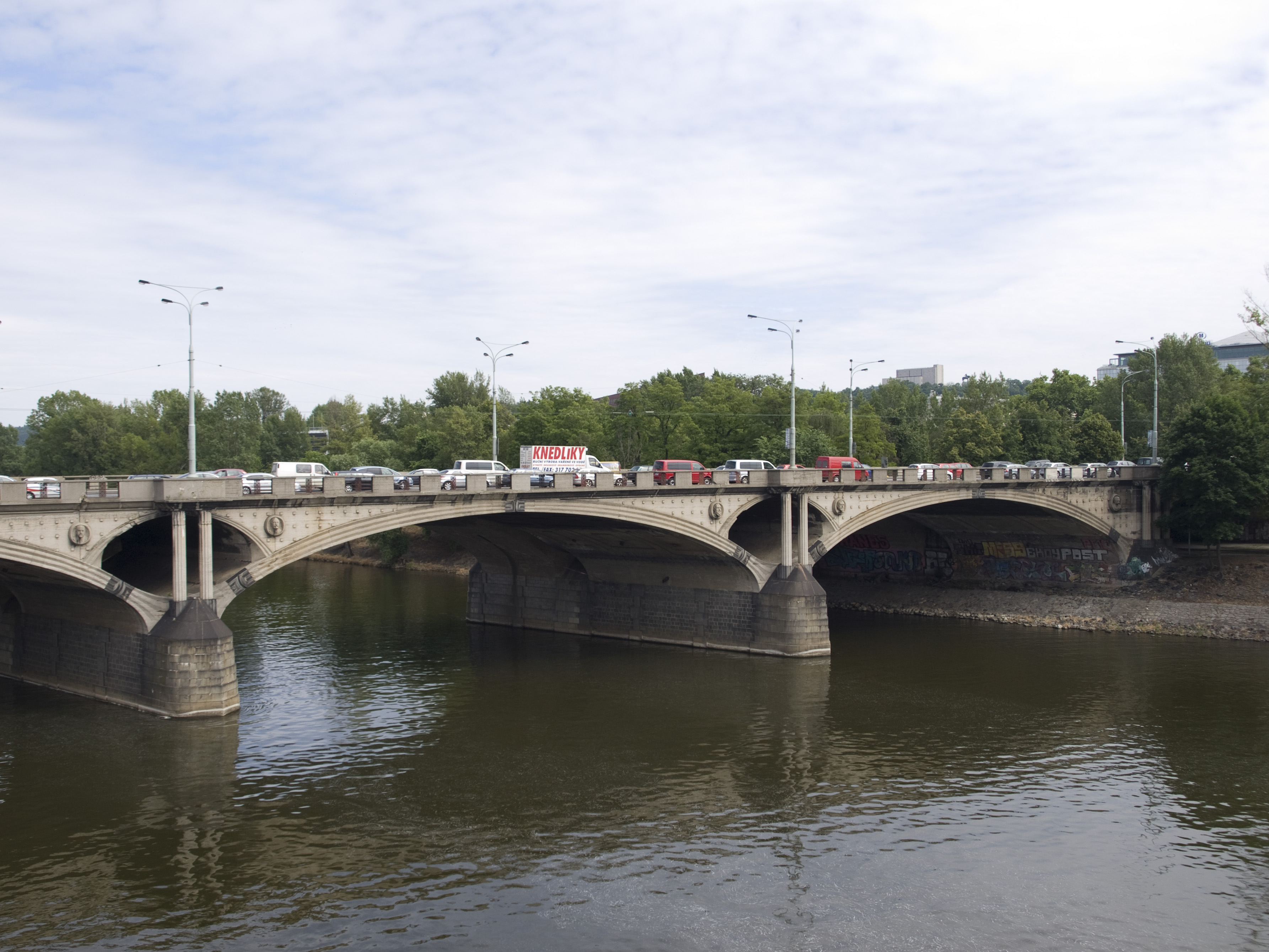 Hlávkův most, Vltavská, Prague